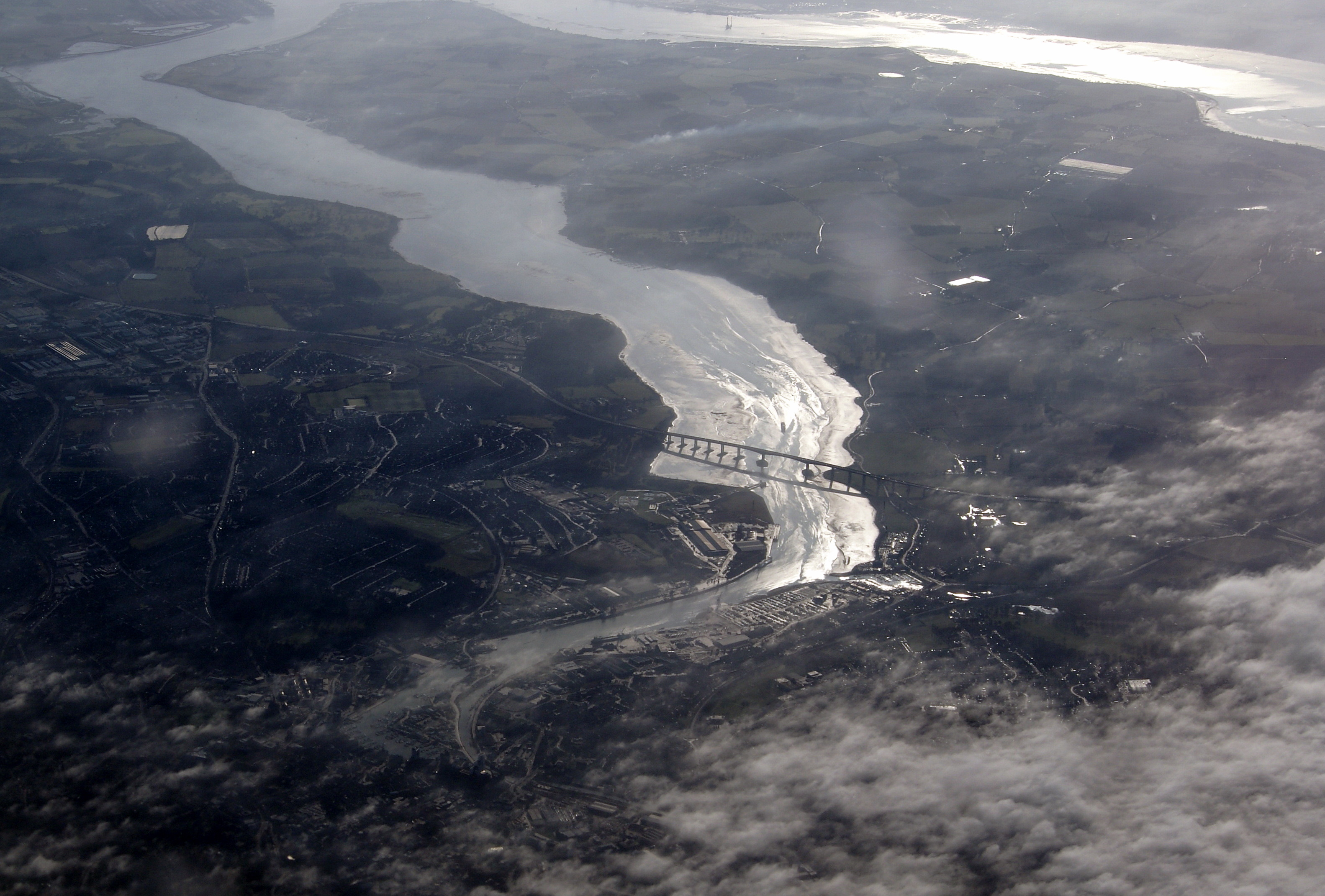 Ipswich and the Orwell Bridge The cloud in the lower right corner was the start of a mass that covered most of the rest of the country. Viewed from a Stansted bound flight from Prague. Best viewed in large size.